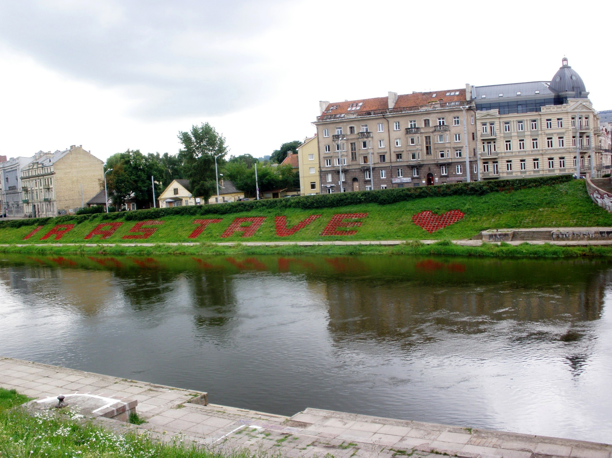 Vilnius, Lithuania